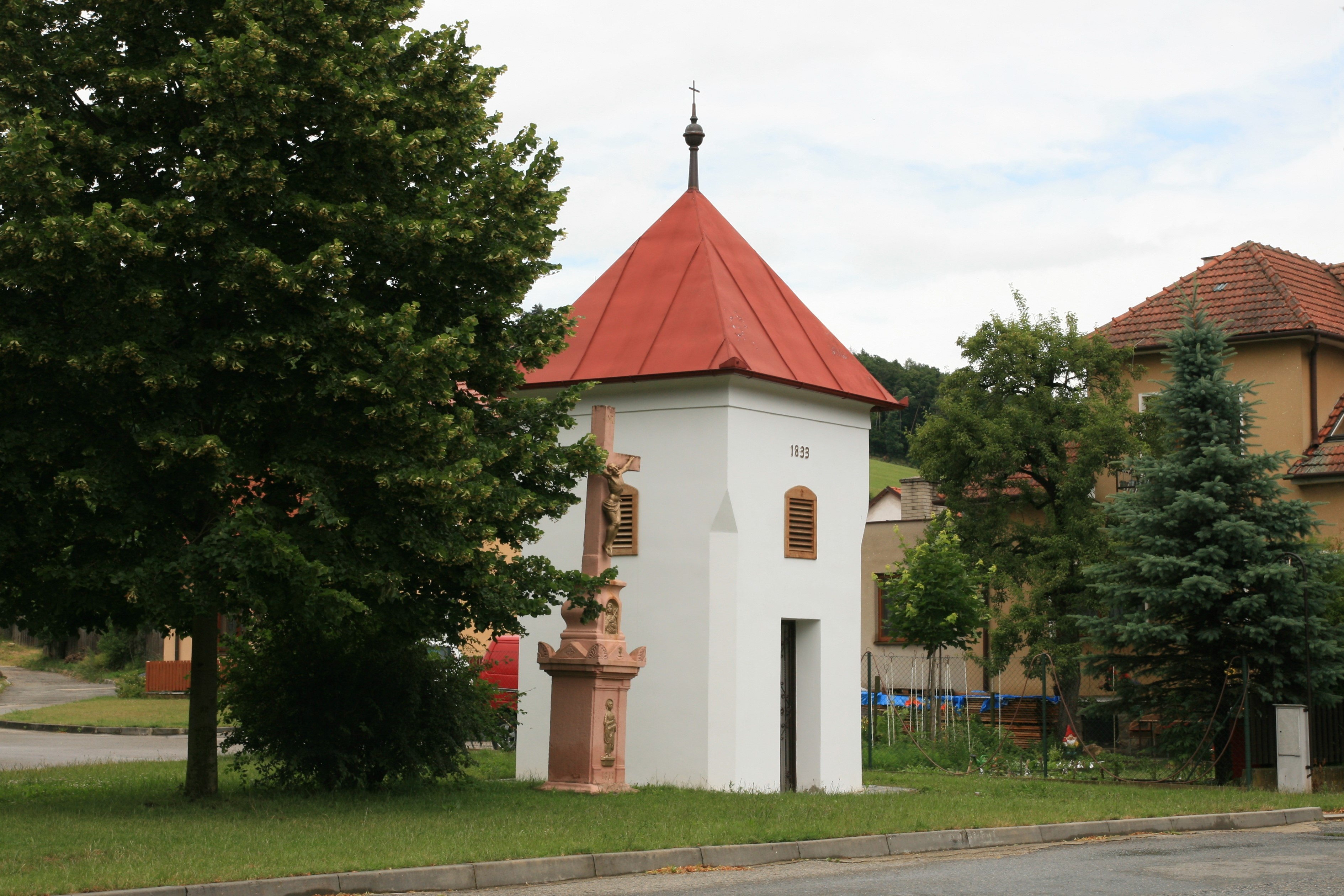 Závist (Blansko District), Czech Republic. Stone bell tower with a cross at the village green.